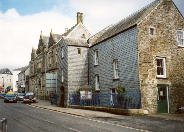 Stuart House, Barras Street, Liskeard